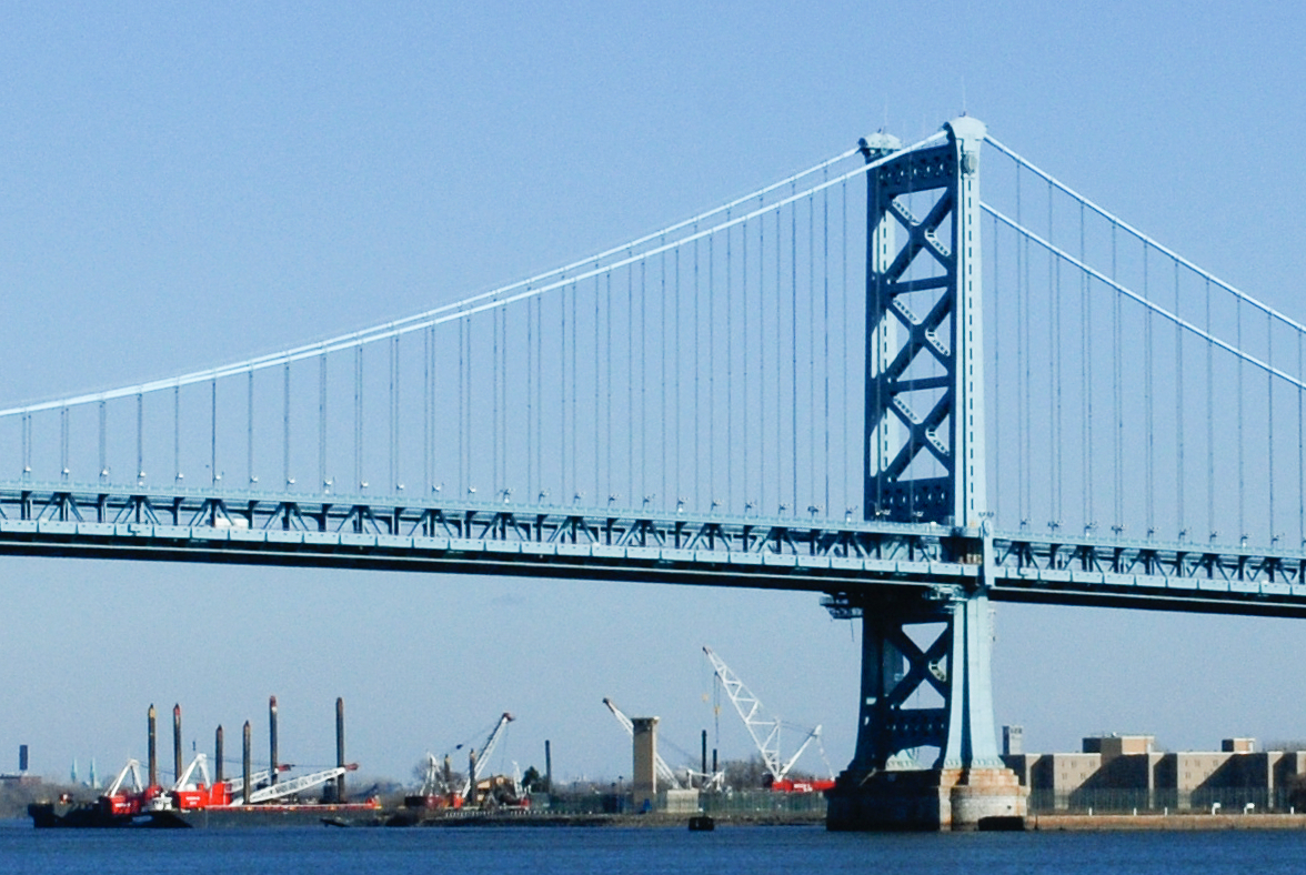 The Benjamin Franklin Bridge is a suspension bridge across the Delaware River connecting Philadelphia, Pennsylvania and Camden, New Jersey